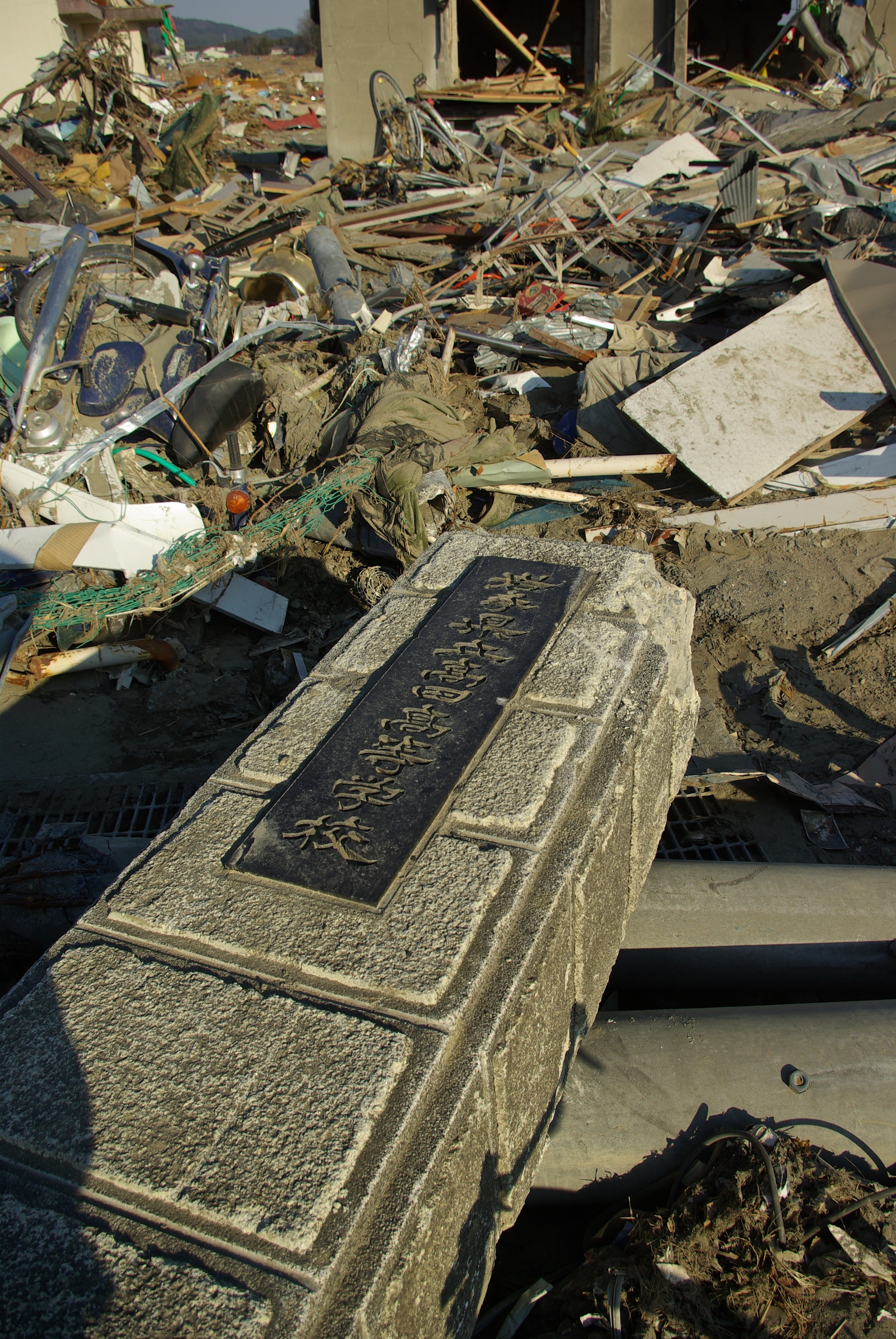 A fallen gatepost of the Iwate Prefectural Takata High School in Rikuzentakata City, Iwate Prefecture, Japan